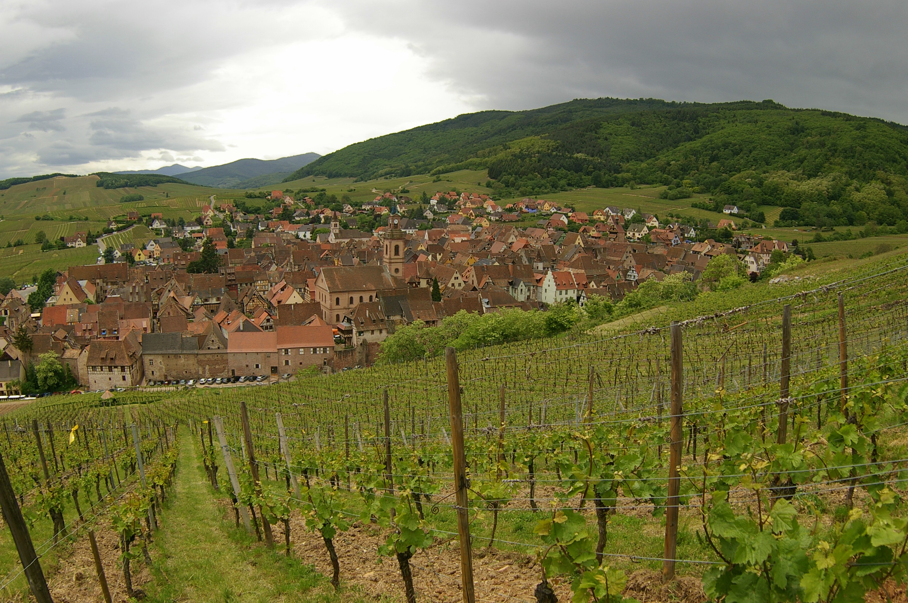 Used here